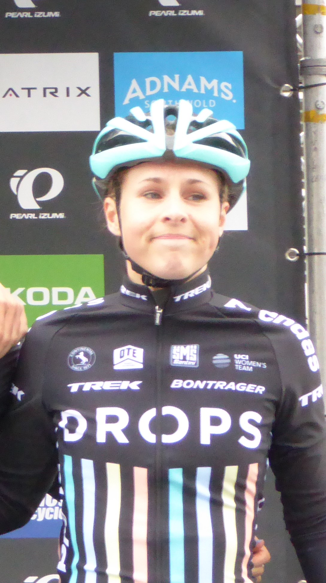 Annie Simpson (Drops), prior to Round 1 of the Matrix Fitness GP Series in Motherwell, on 17 May 2016